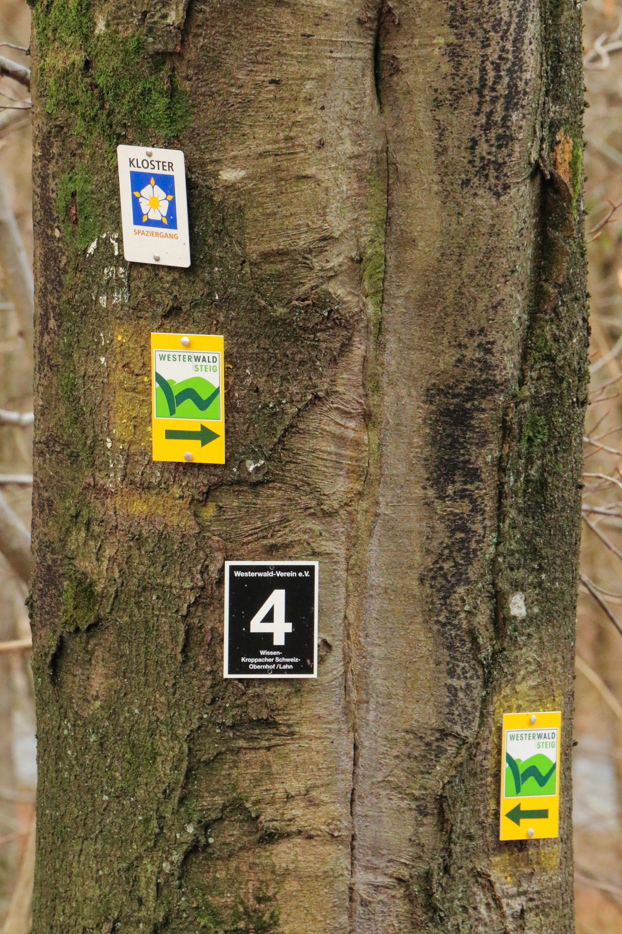 Various footpath signs near the monastery of Marienstatt